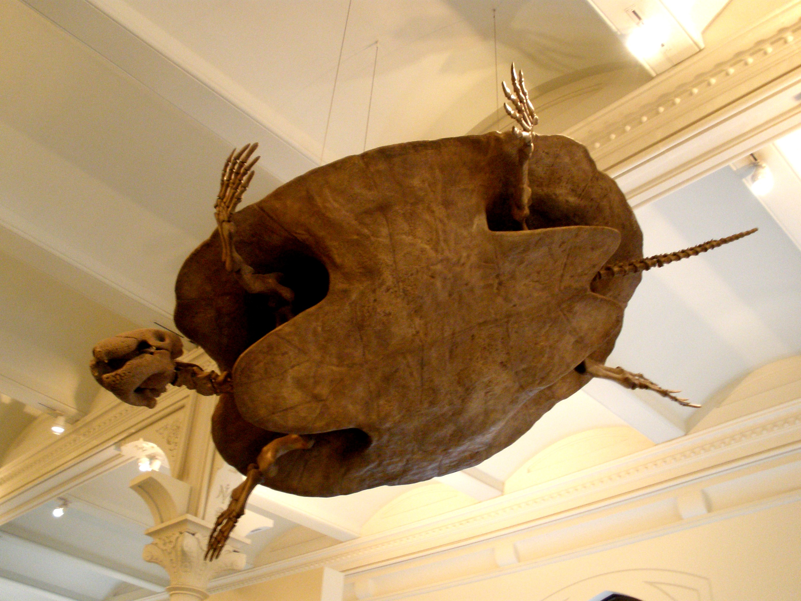 fossil of Stupendemys, an extinct turtle